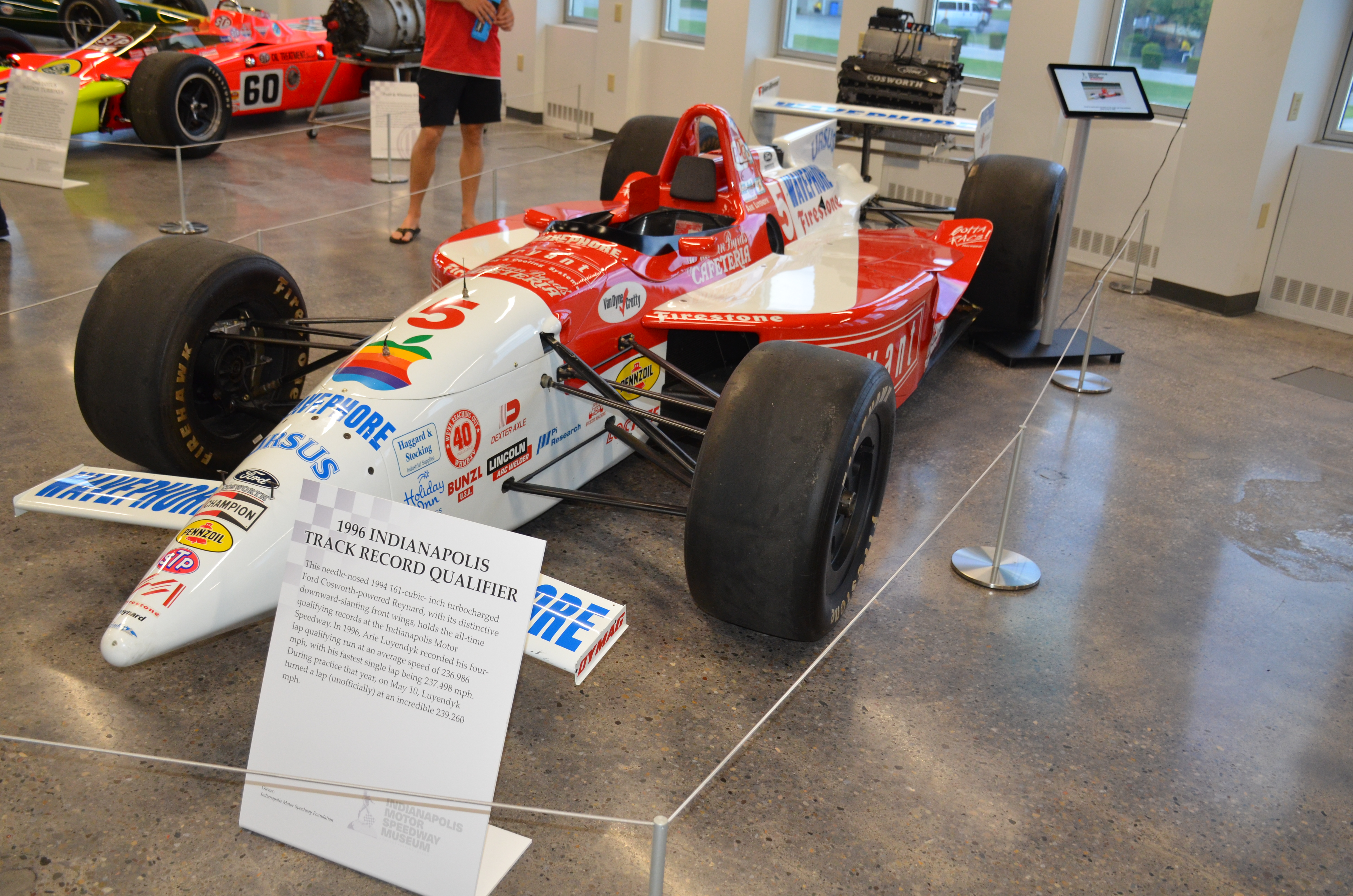 Arie Luyendyk's 1996 Indy 500 time trials record car at the Indianapolis Motor Speedway Museum